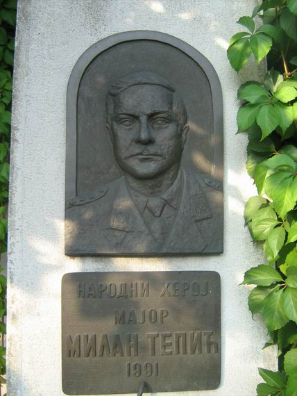 I took photo of Milan Tepic's monument in his street in Belgrade.